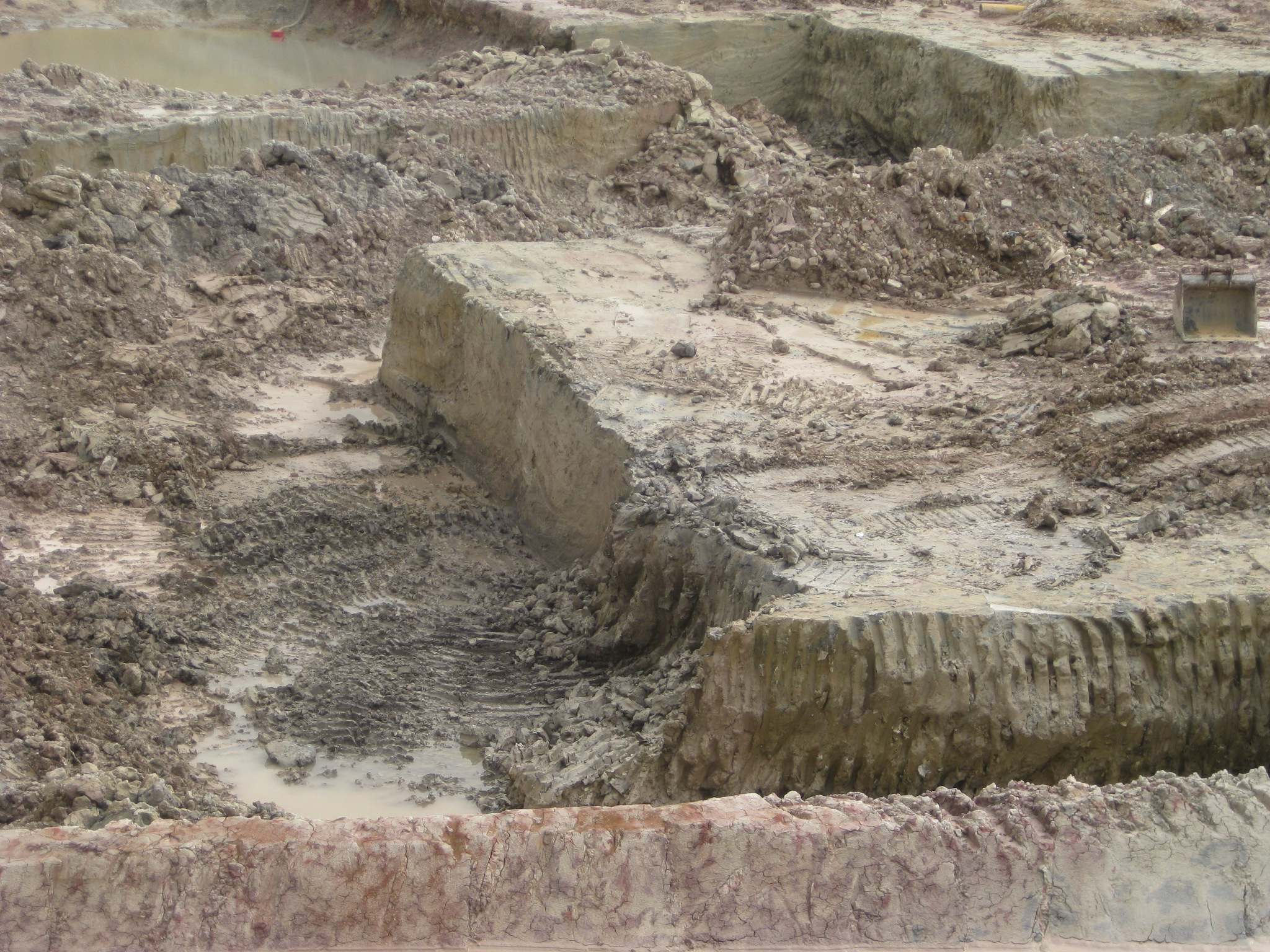 Purbeck Ball Clay Mine.jpg